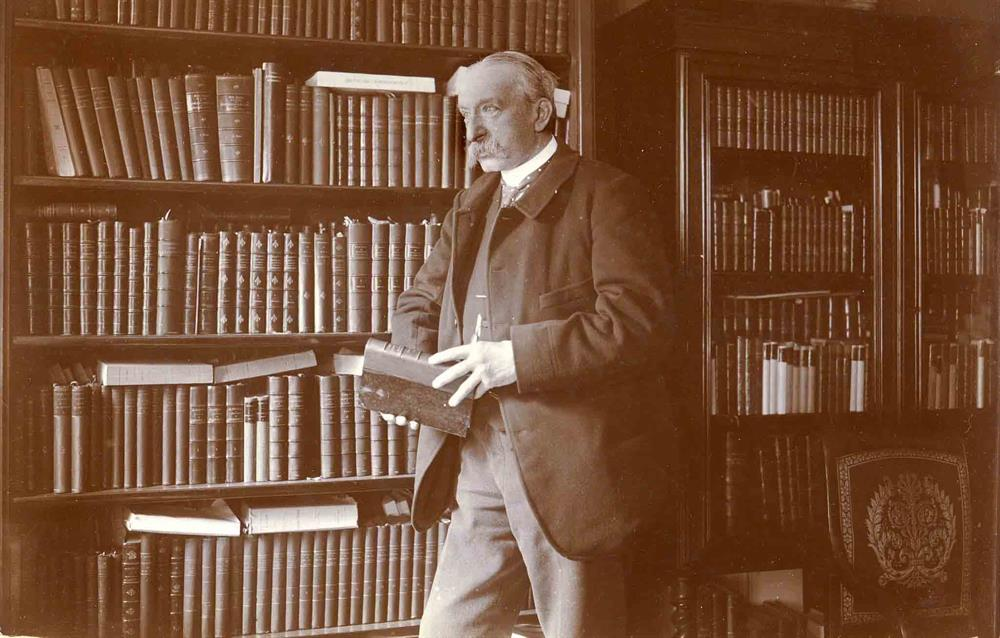 French historian Albert Sorel (1842-1906)